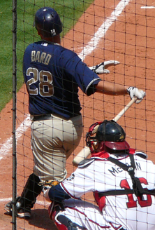 Picture I took of Josh Bard on 5-10-07 23:43, 13 May 2007 . . Chrisjnelson . . 222×328 (144,490 bytes)